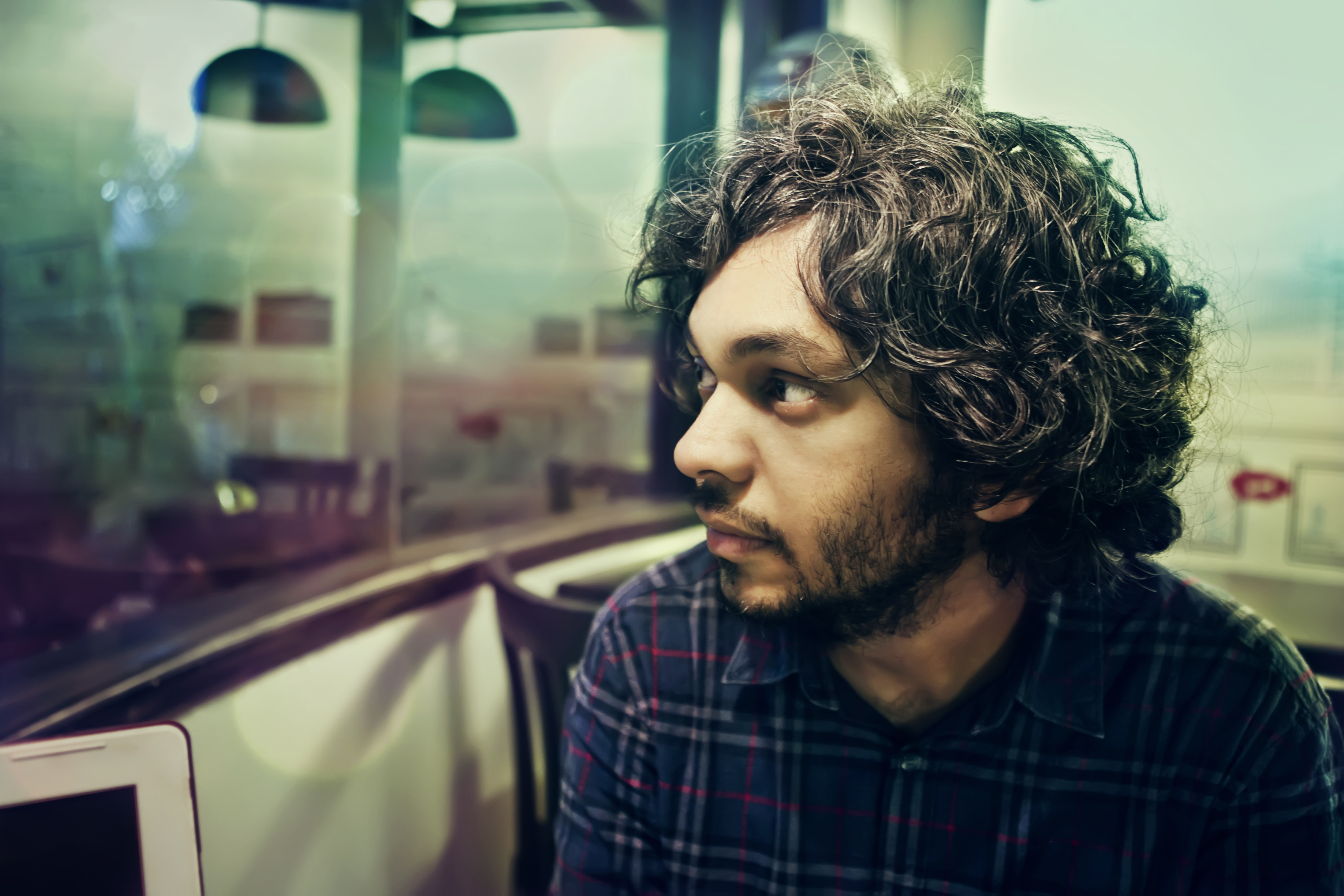 Indian Filmmaker, Director of film 'Ship of Theseus'